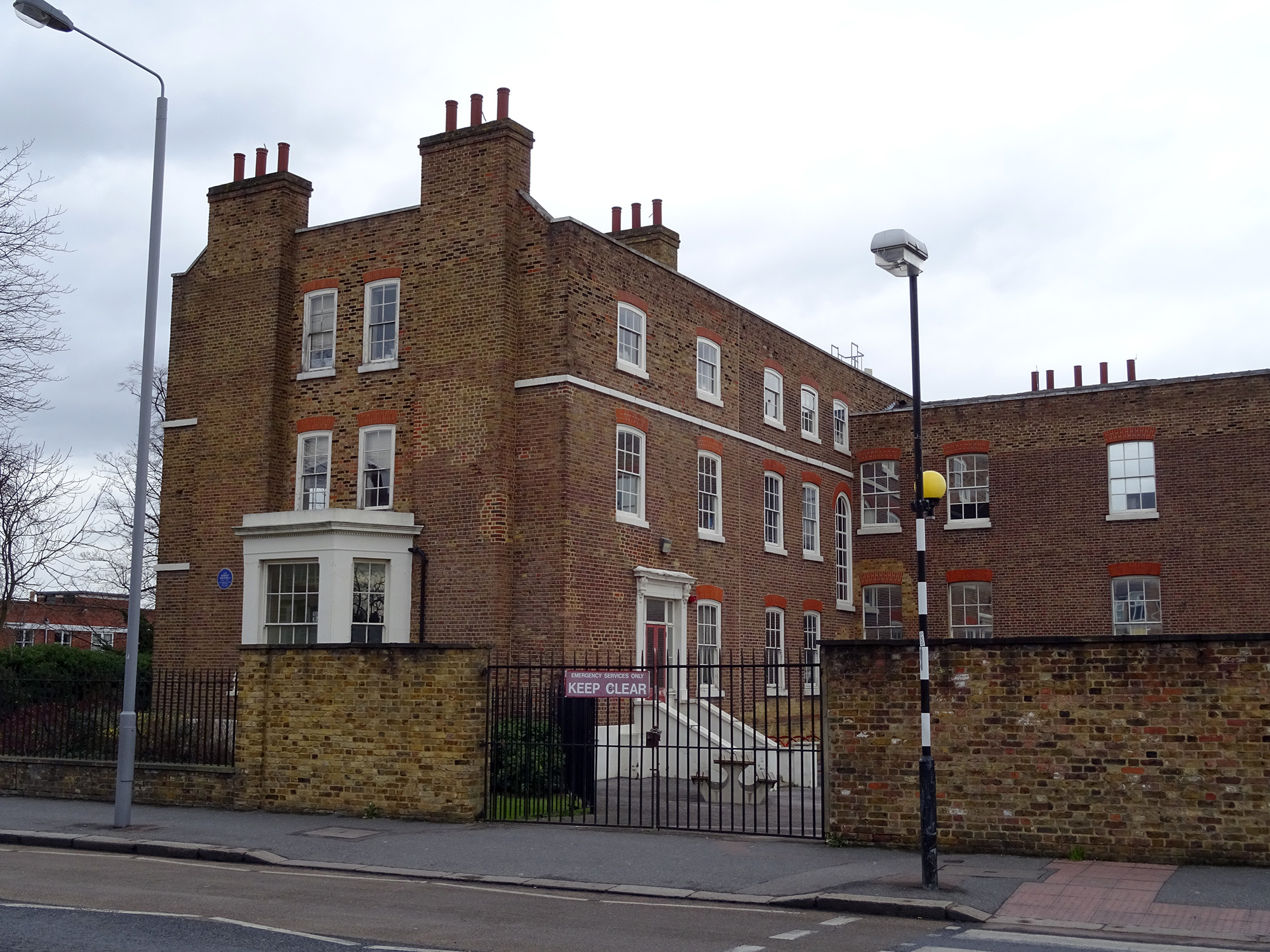 Sir Robert Wigram MP 1744-1830 High Sheriff of Essex Merchant lived here - Walthamstow House, Shernhall Street, Walthamstow London E17 9RT